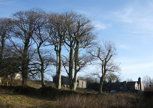 Trenhorne Farm The farm forms part of a small hamlet amid trees on slopes between small tributaries of the River Lynher. Seen here from footpath 523/5/2.